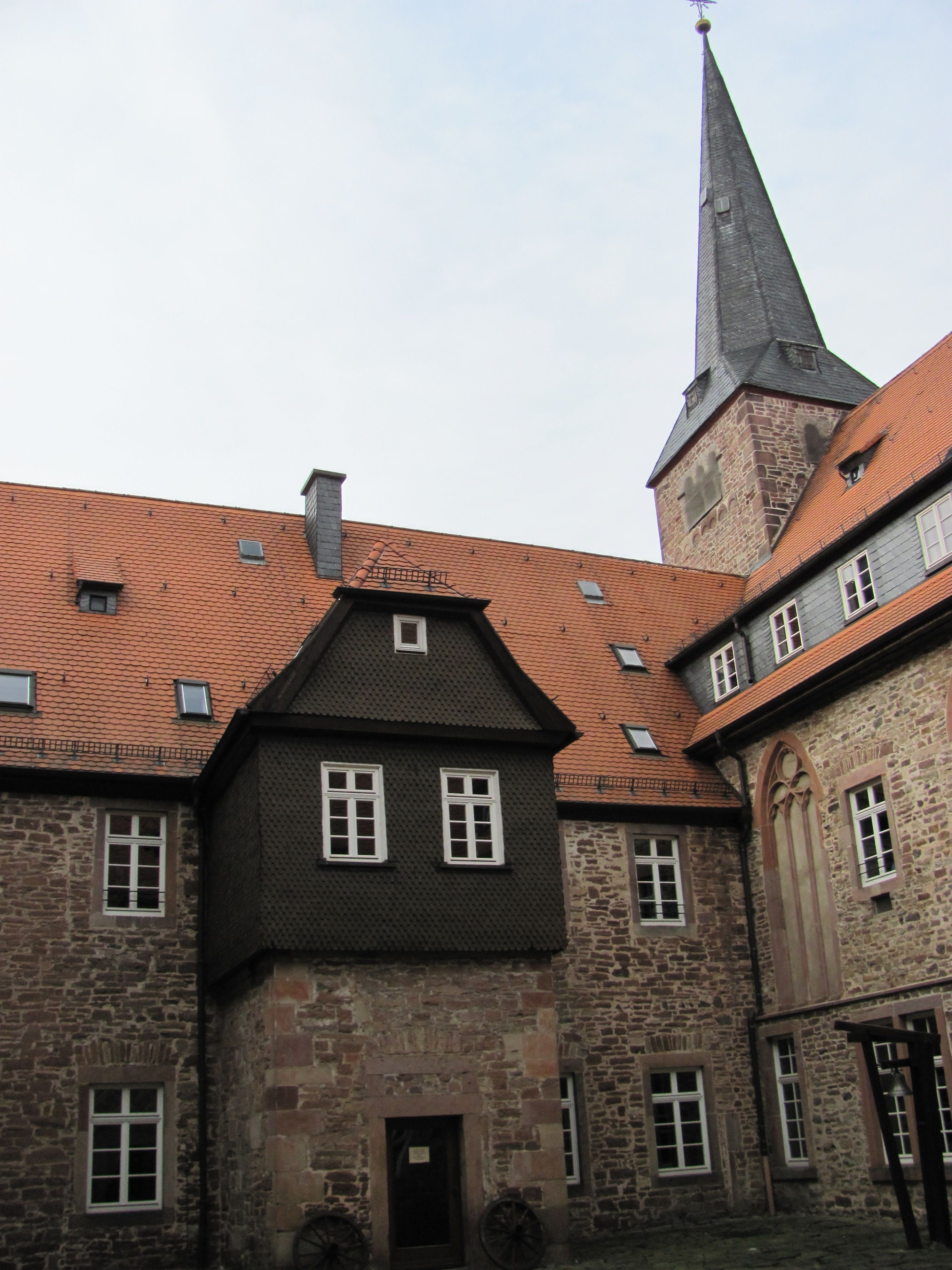 Schlüchtern Monastery, cloister / court